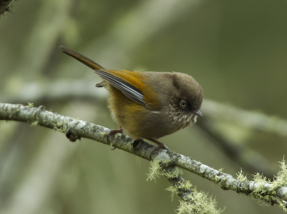 Streak-throated Fulvetta - Taiwan_S4E6852